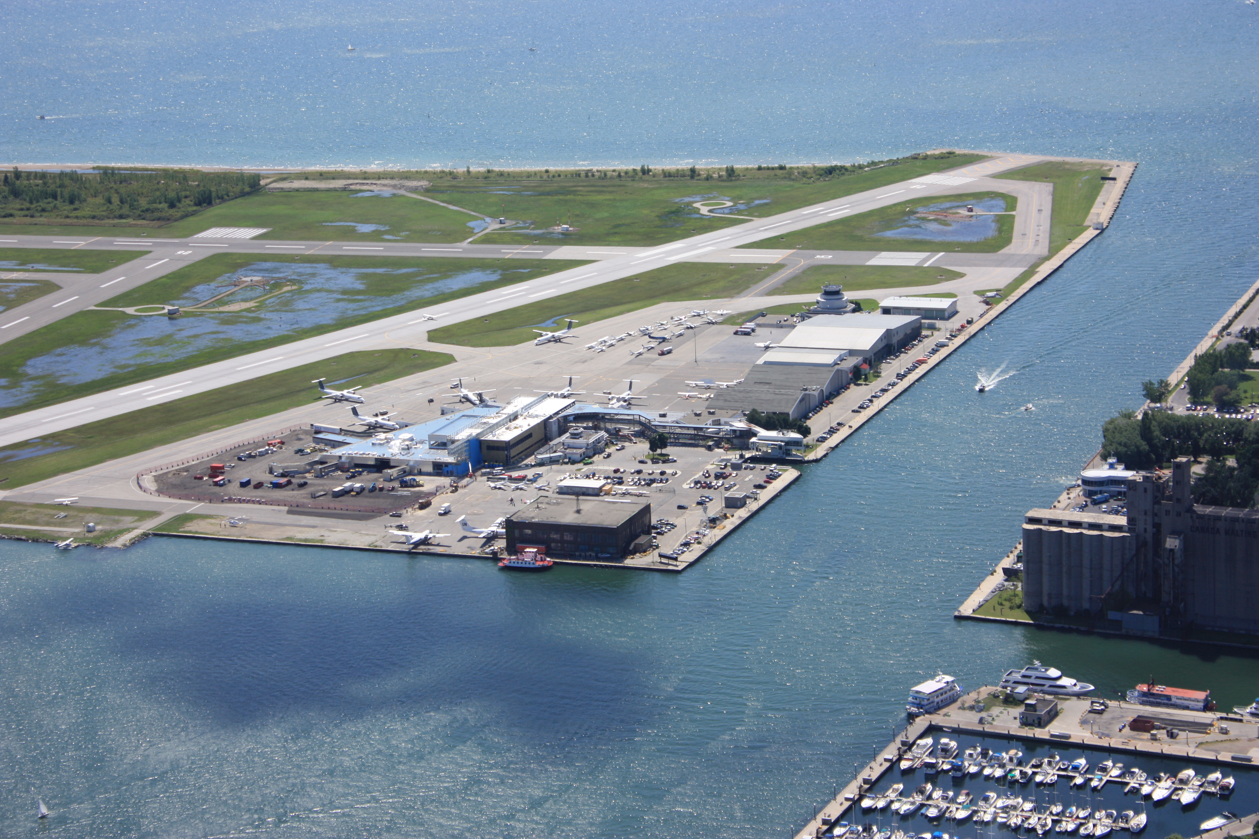 Toronto City Centre Airport viewed from the CN Tower